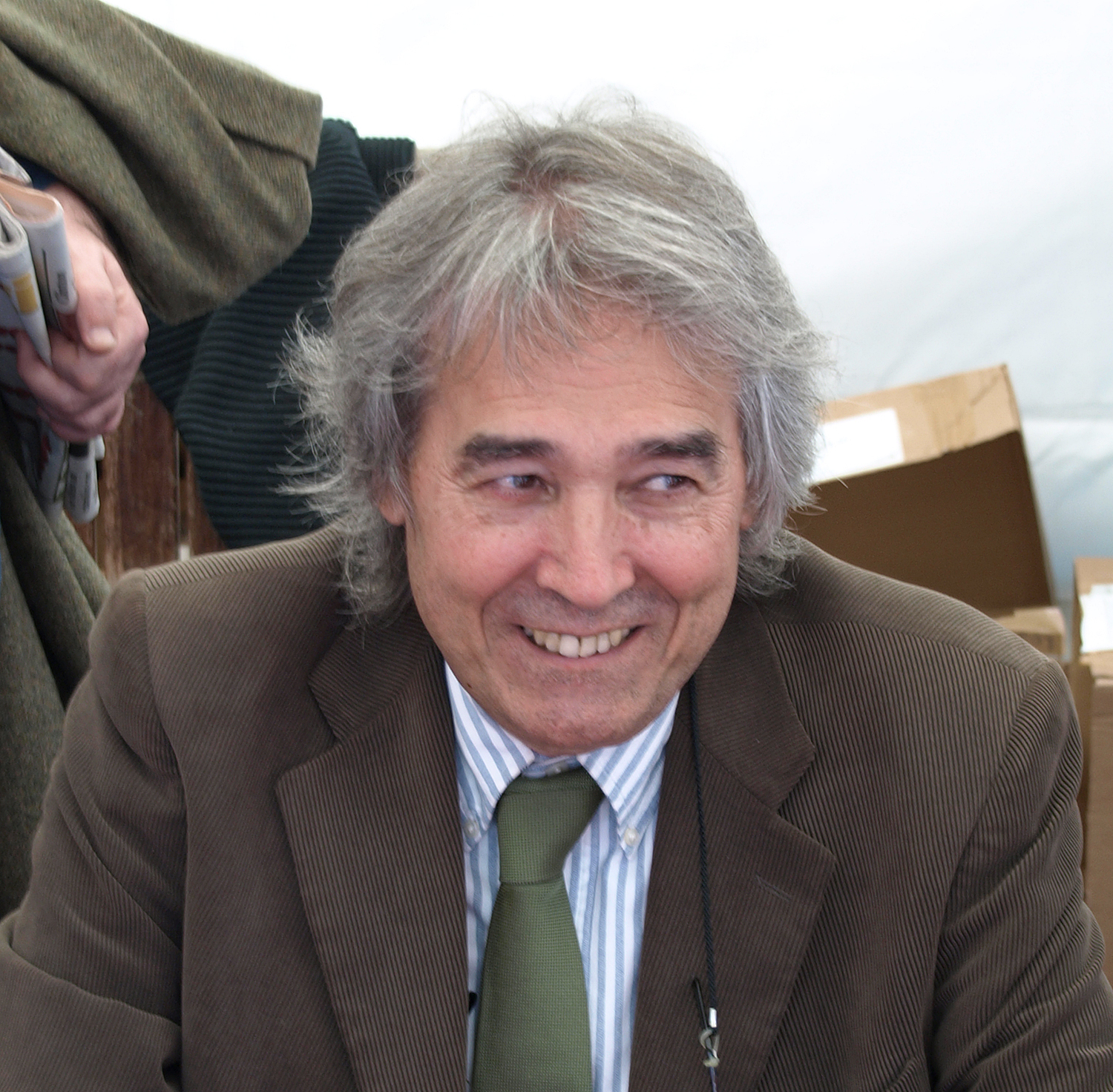 Sebastià Serrano Farrera (born 1949 in Bellvís, Catalonia, Spain), is a Catalan linguist and writer.